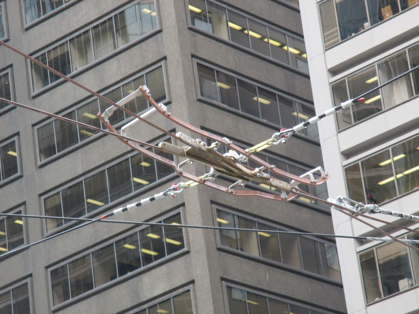 Overhead over a switch in Toronto: Two runners for pantographs flank the trolley pole frog. The switch is on York Street on the north side of King Street West.